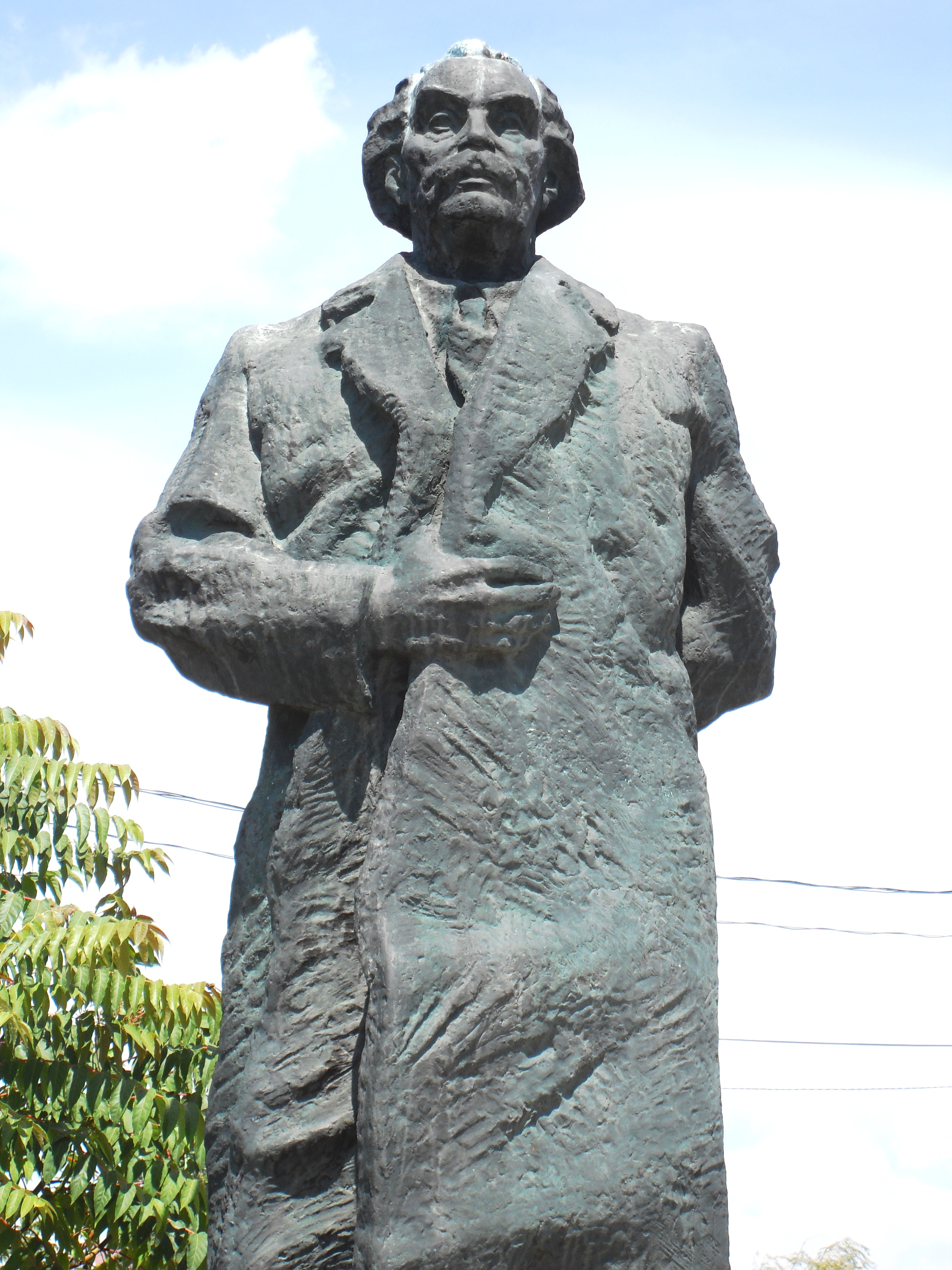 Statue of Georgi Dimitrov in the Memento Park. Author: Valentin Sztarcsev. Year: 1983. Georgi Dimitrov Mikhaylov (Bulgarian: Георги Димитров Михайлов), also known as Georgi Mikhaylovich Dimitrov (Russian: Георгий Михайлович Димитров), (June 18, 1882 - July 2, 1949) was a Bulgarian Communist leader and hero of the Comintern.